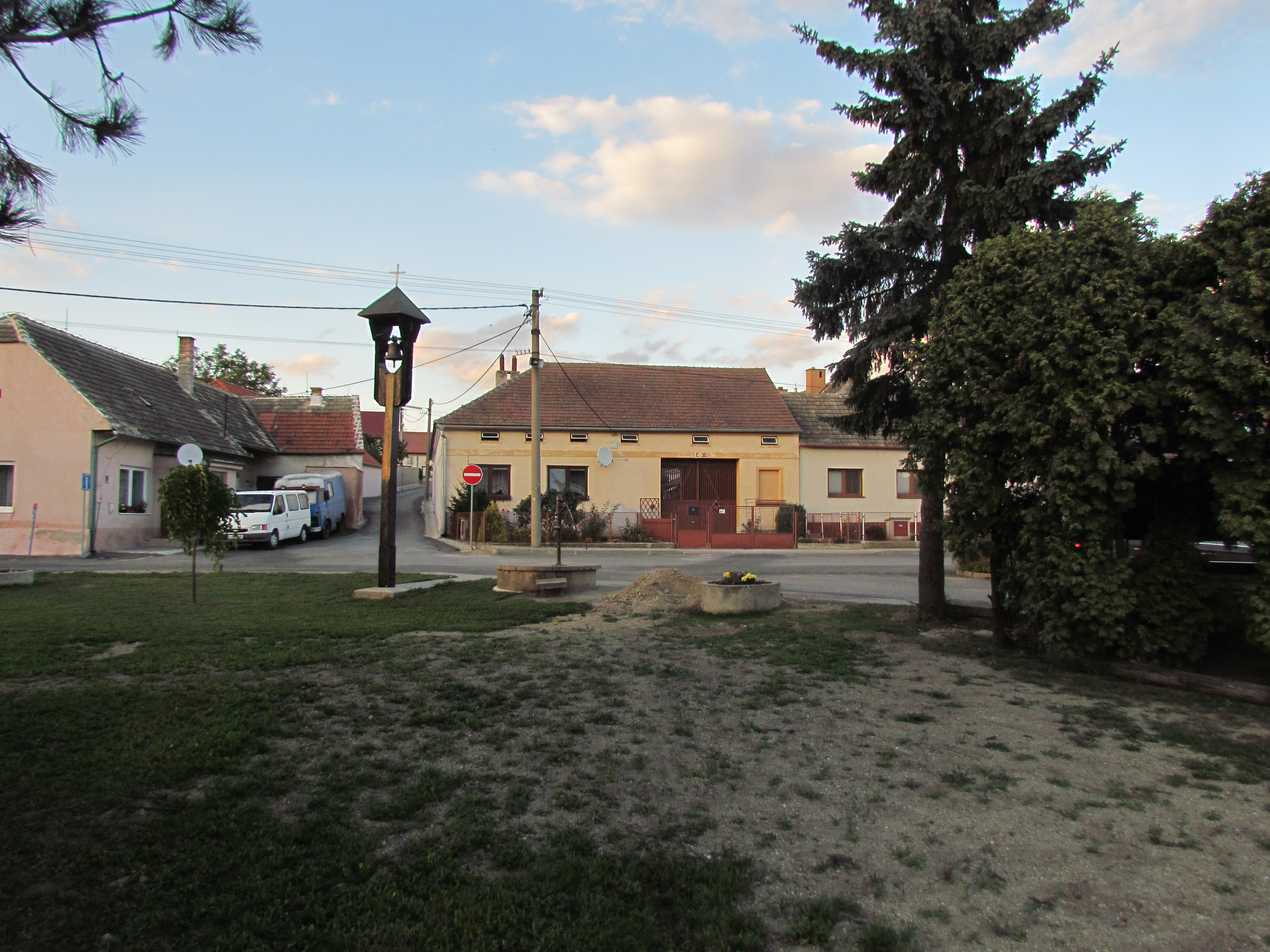 Center of Láz, Třebíč District.